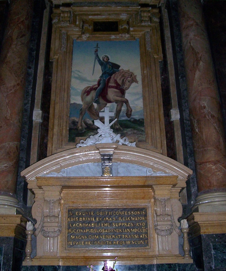 Reliquiary and altar of st Obitius in the church of st Maurice. Niardo, Val Camonica